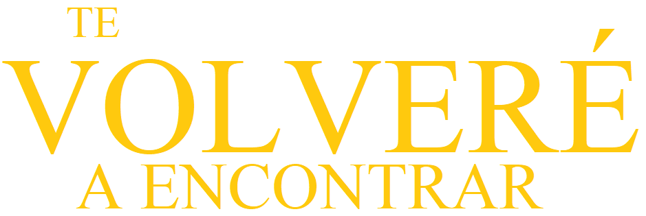 Logo of Peruvian telenovela Te Volveré a Encontrar.